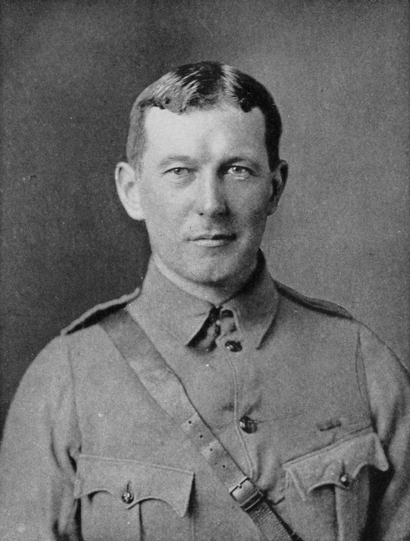 Portrait photo of John Alexander McCrae (1872–1918).